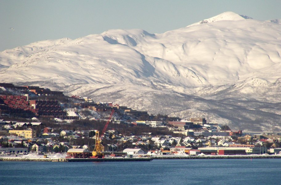 Tromsøya's north, seen from the bridge (zoomed) (2006-03)